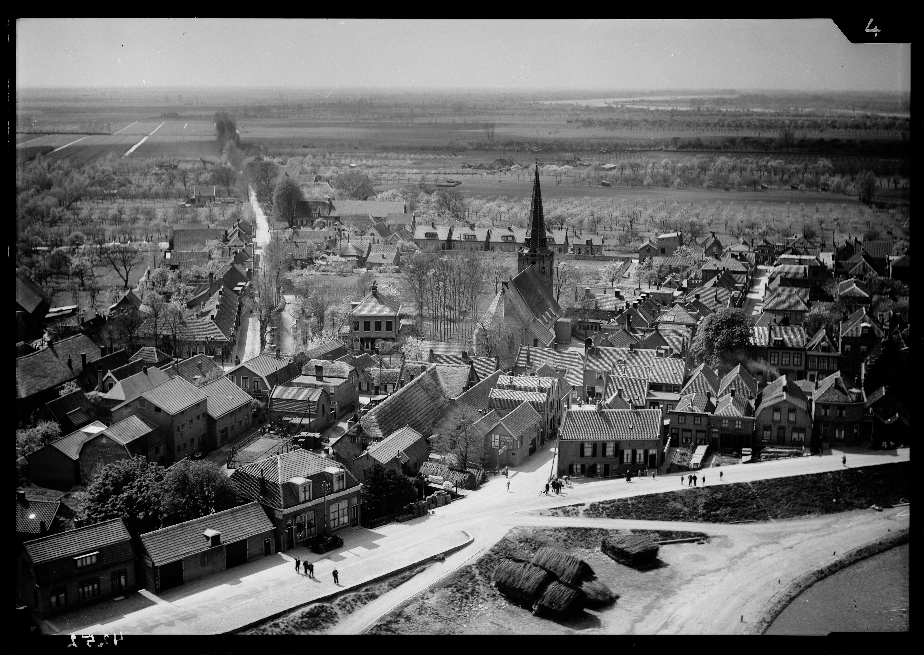 Aerial photograph of Ameide, The Netherlands